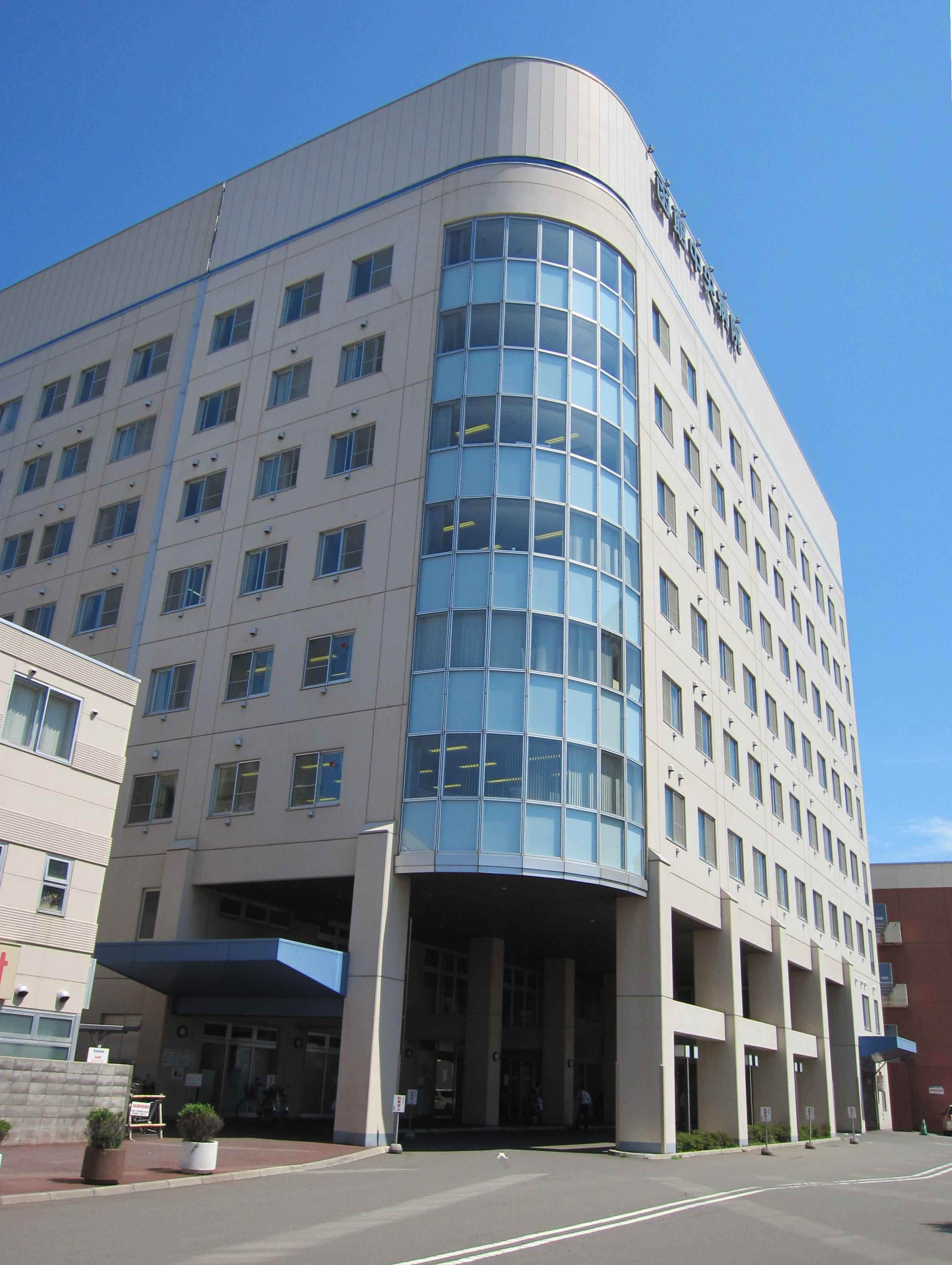 Hakodate General Central Hospital